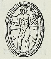 Image of Ixion on antic gemma V century BC